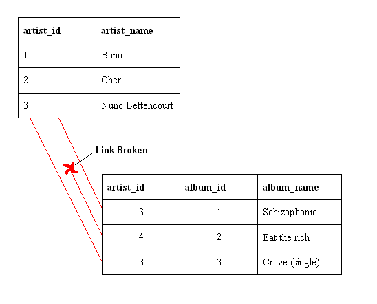 An example of a database that has not enforced referential integrity. In this example, there is a foreign key (artist_id) value in the album table that references a non-existent artist — in other words there is a foreign key value with no corresponding primary key value in the referenced table. This anomaly came about when the record for an artist called "Aerosmith", with an artist_id of "4", was deleted from the artist table, even though the album "Eat the rich" referred to this artist. If referential integrity had been enforced, the deletion of the main record would have been possible, but its associated record would have been deleted as well. Alternatively, the existence of an associated record would not allow the delete operation of the referenced record, and instead return an error code.